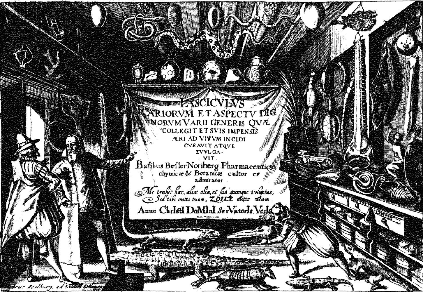 "Fascicvlvs Rariorvm", engraved title page (cabinet of Basilius Besler)